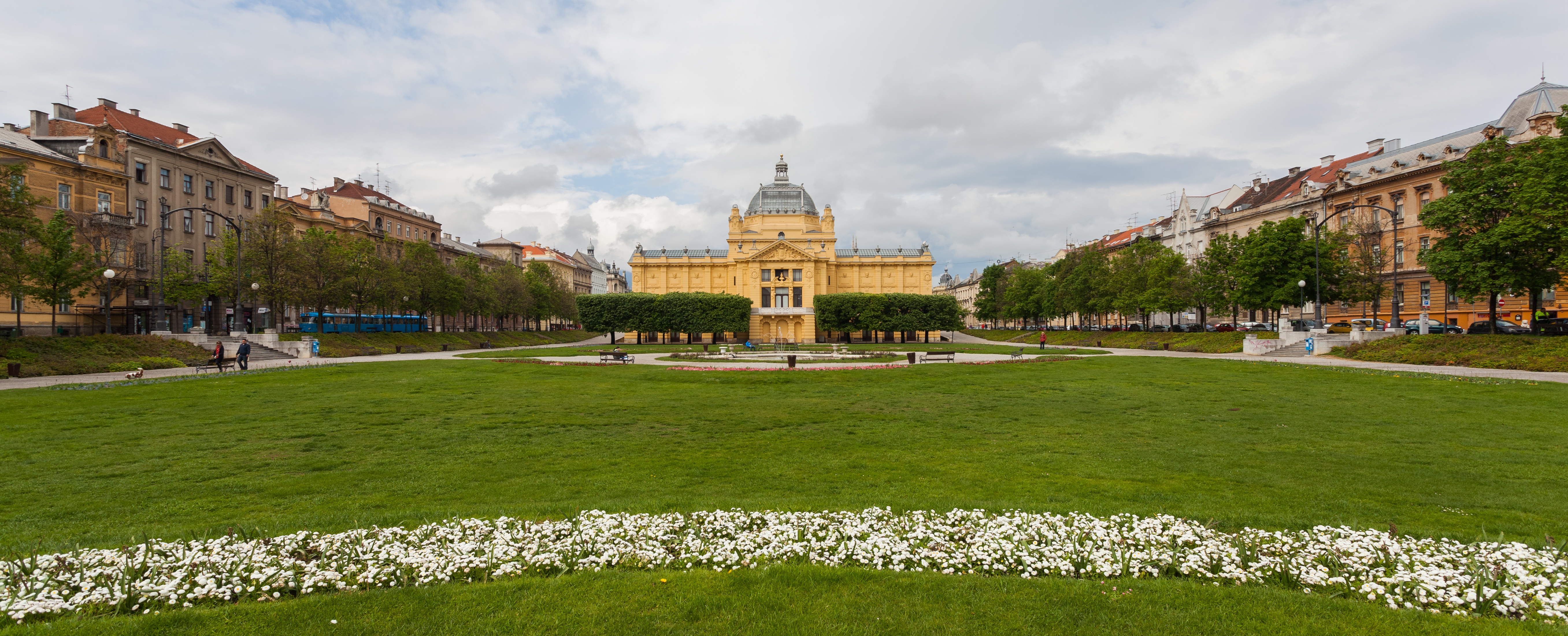 Art Pavillon, Zagreb, Croatia